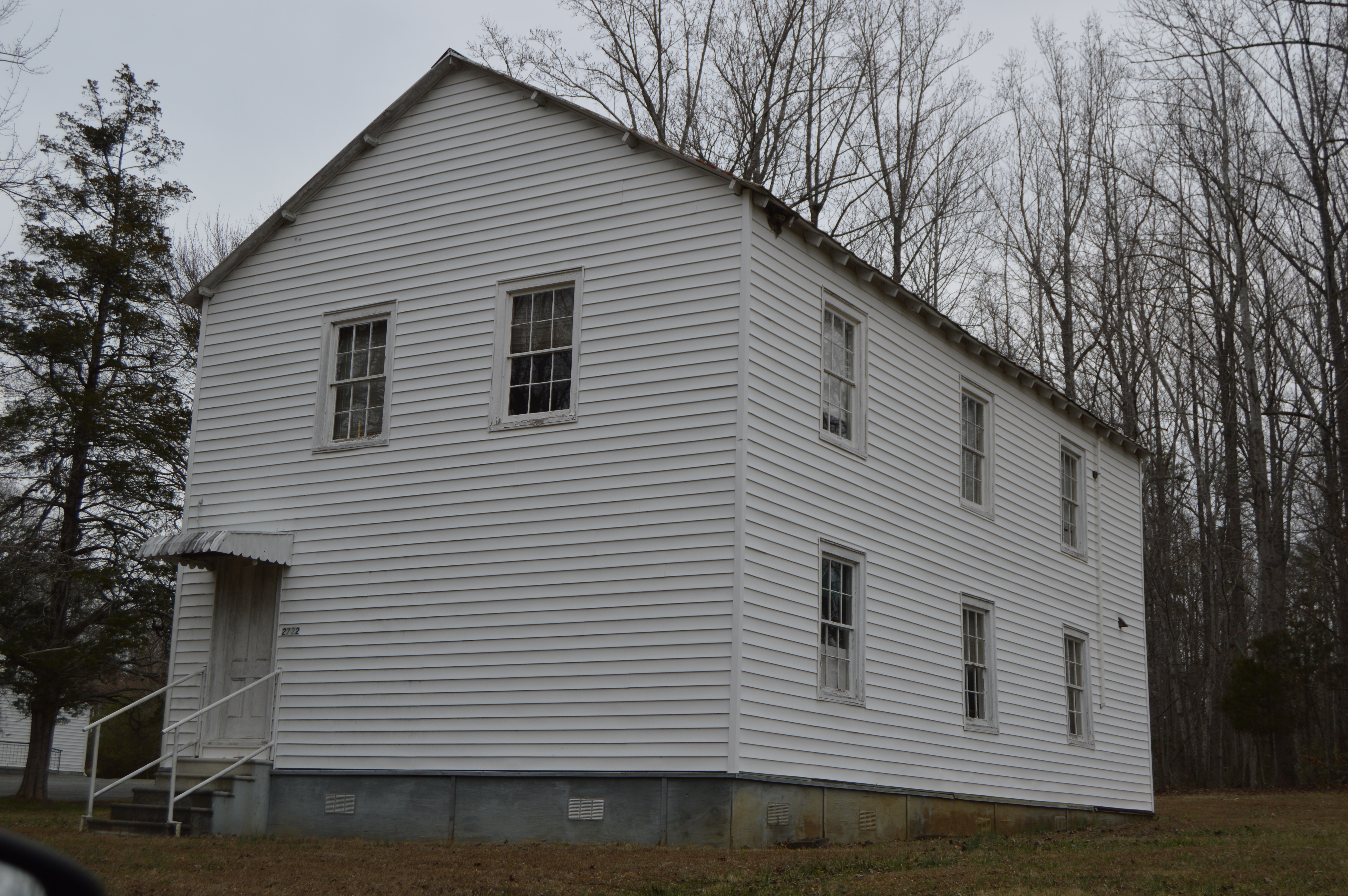 Front and southeastern side of the Masonic lodge building located at the intersection of Alberene and Plank Roads northeast of Alberene in Albemarle County, Virginia, United States. It is a component of the Southern Albemarle Rural Historic District, a historic district that is listed on the National Register of Historic Places.